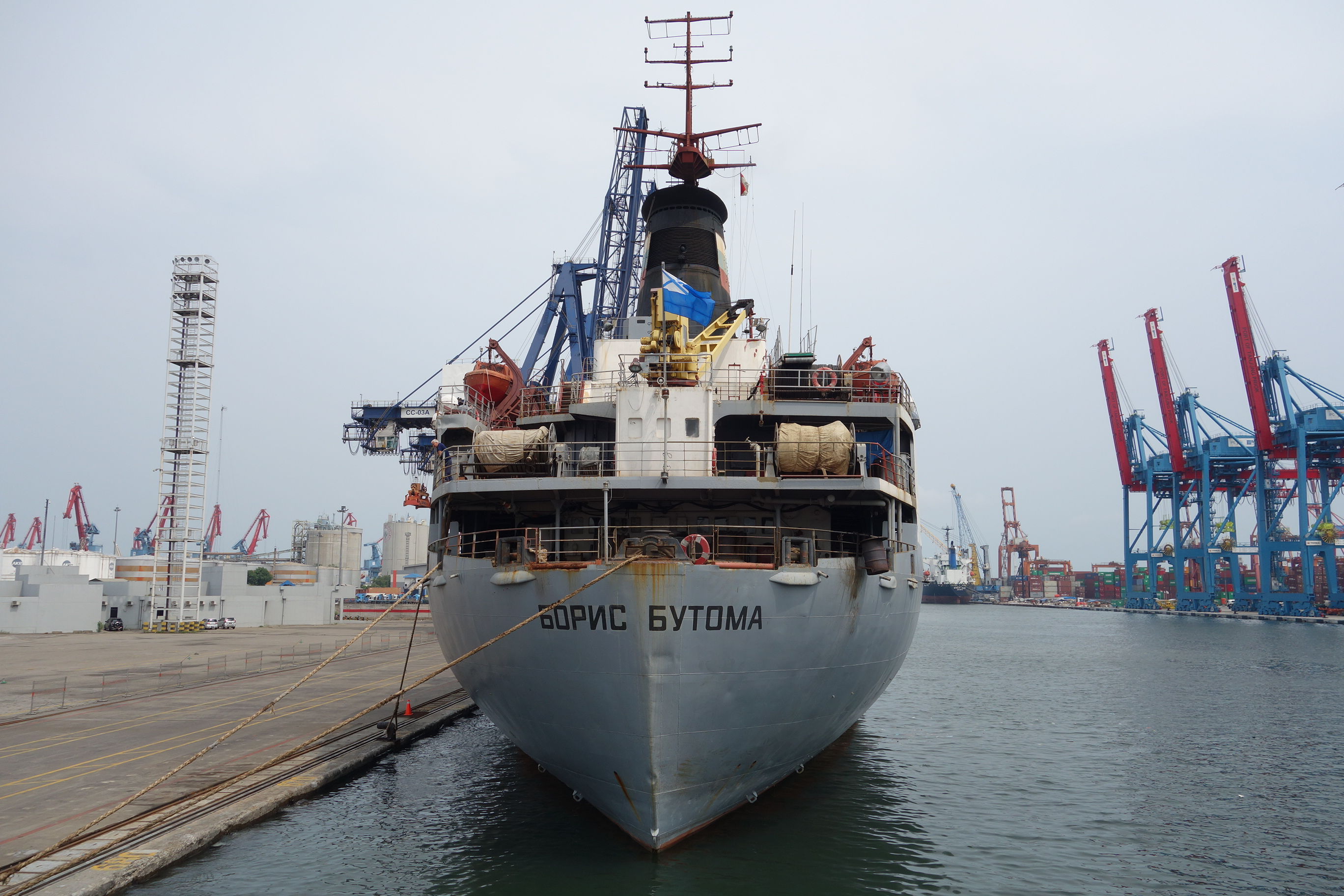 Fleet tanker Boris Butoma in Tanjung Priok, Jakarta, December 2015